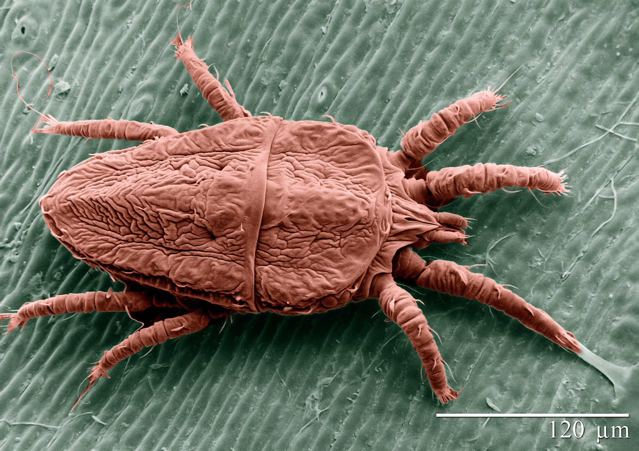 The Flat Mite (Brevipalpus phoenicis) carries the Leprosis Virus in Citrus, a disease currently in South America but moving North. Magnified 600X. False colors added. (LTSEM) Plate # 27305.